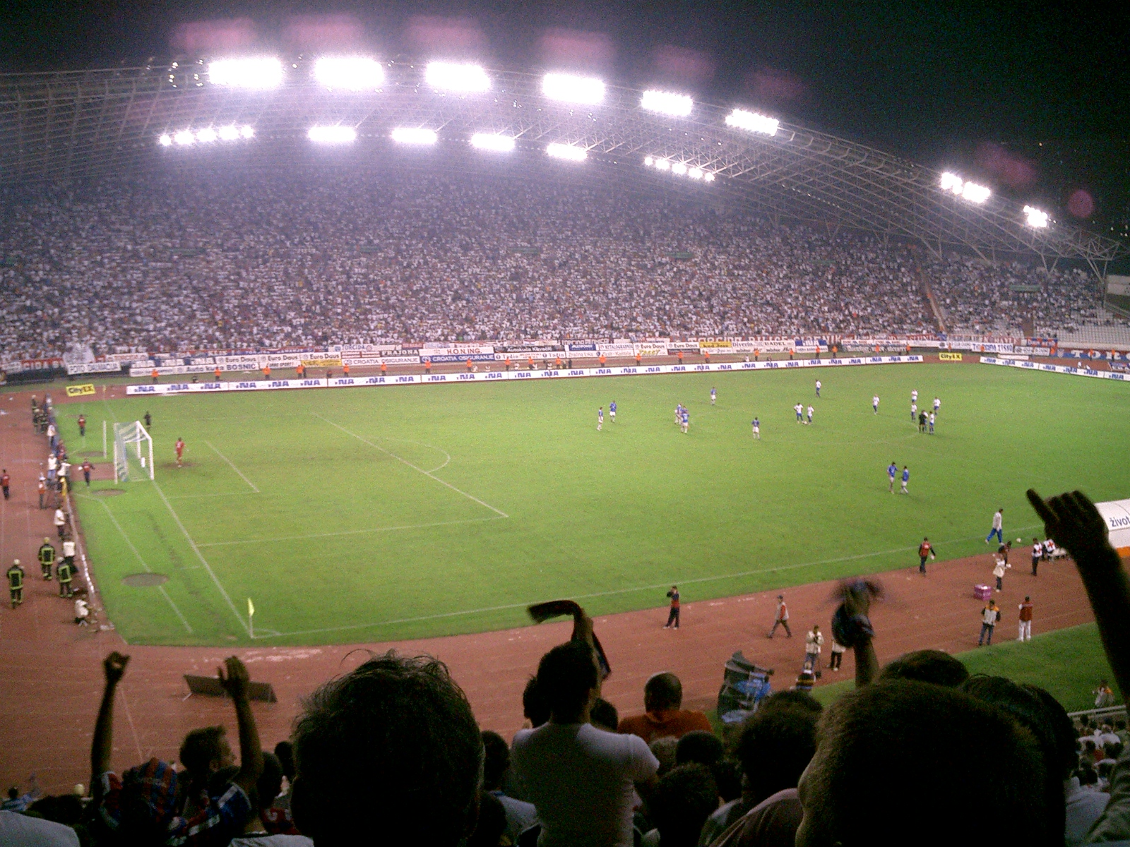 An image showing inside of Poljud Beauty two minutes before beginning of the second half of the biggest Croatian football derby between Hajduk Split and Dinamo Zagreb.